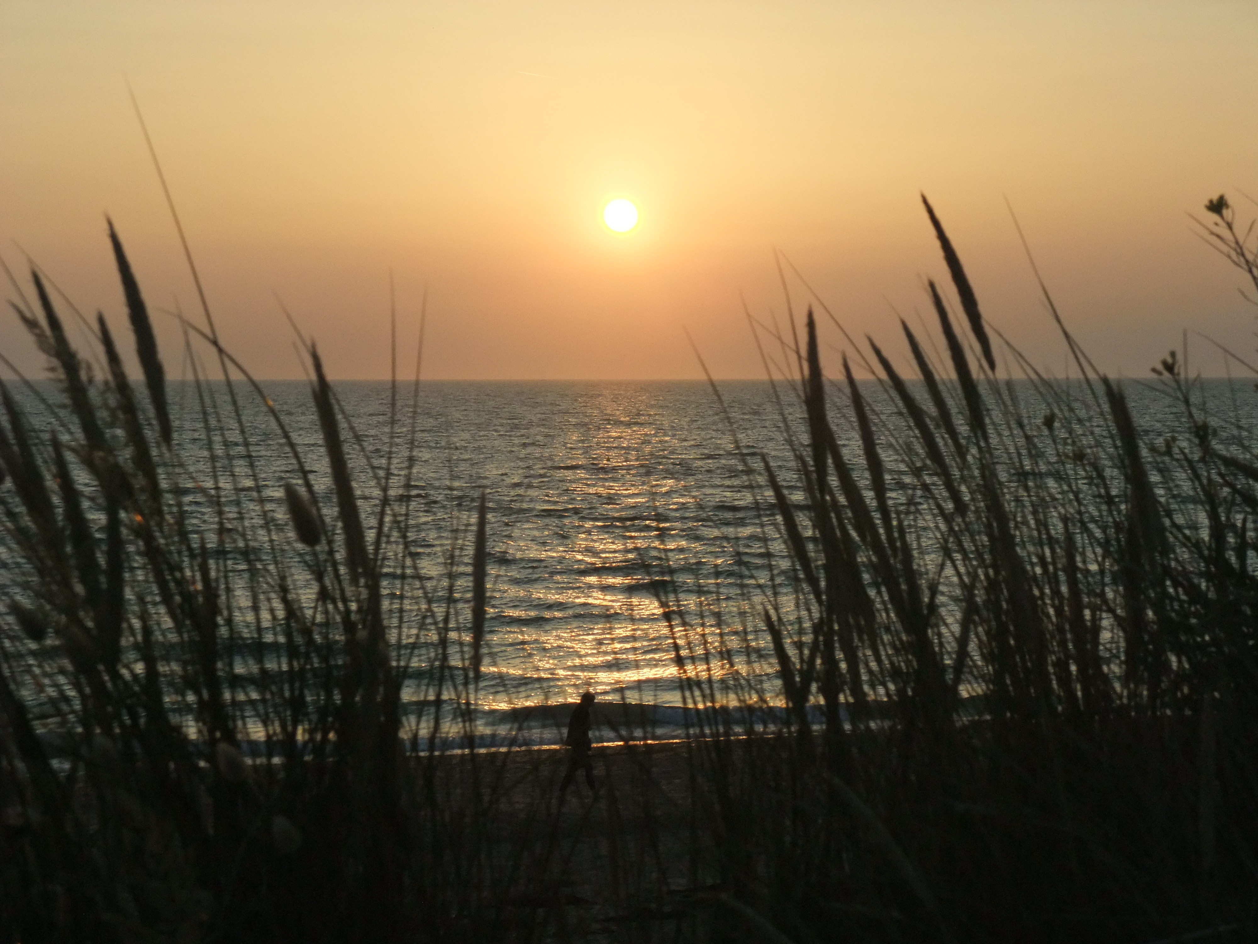 Sunset in Coudeville-Plage, France